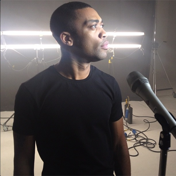 Wiley at a video shoot in 2012.